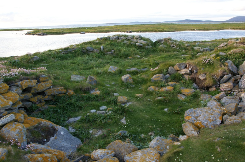 Dun Vulan, South Uist, Outer Hebrides, Scotland - interior from the south west